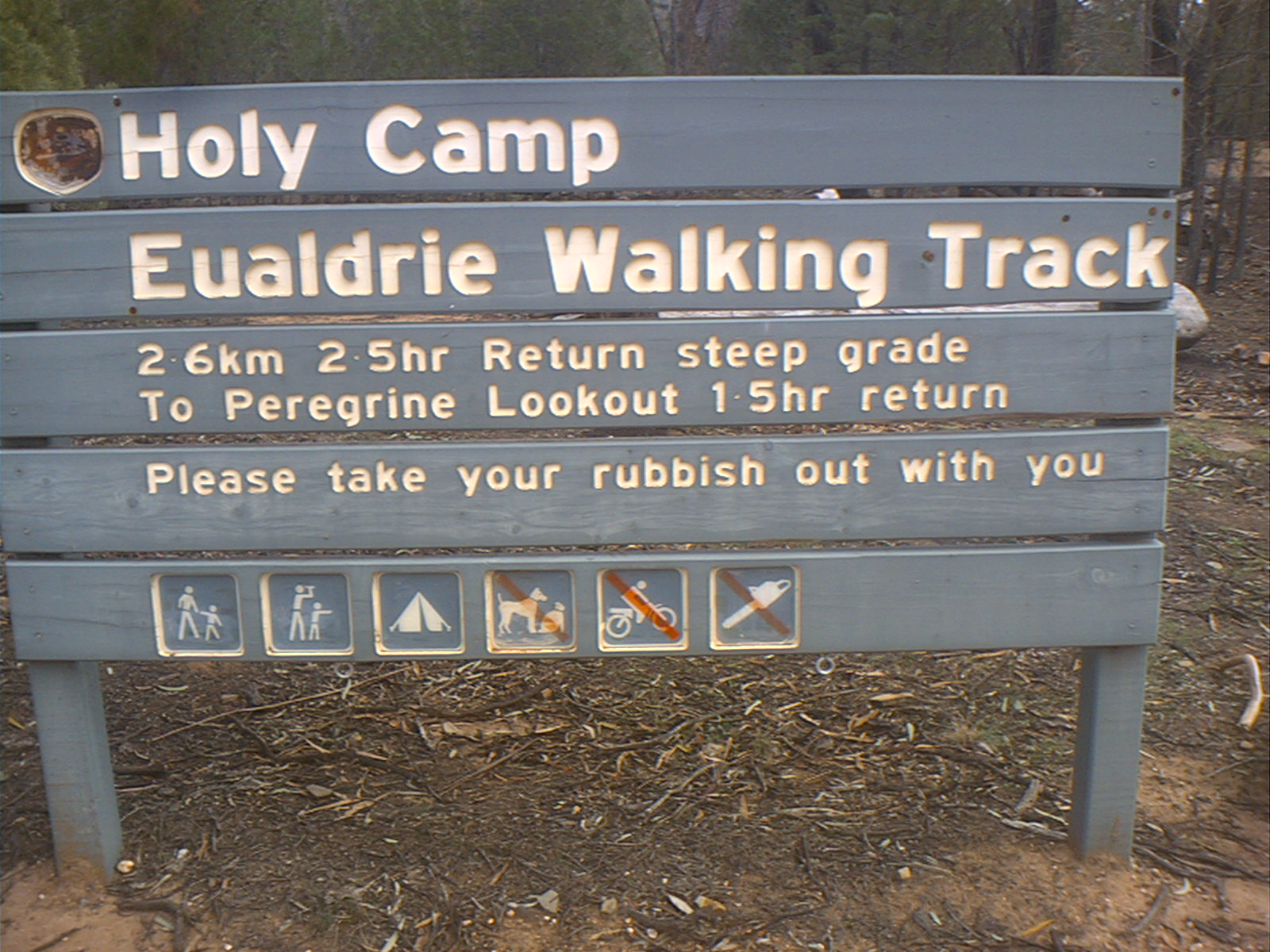 Signboard in Holy Camp advertising walk. Weddin Mountains National Park.